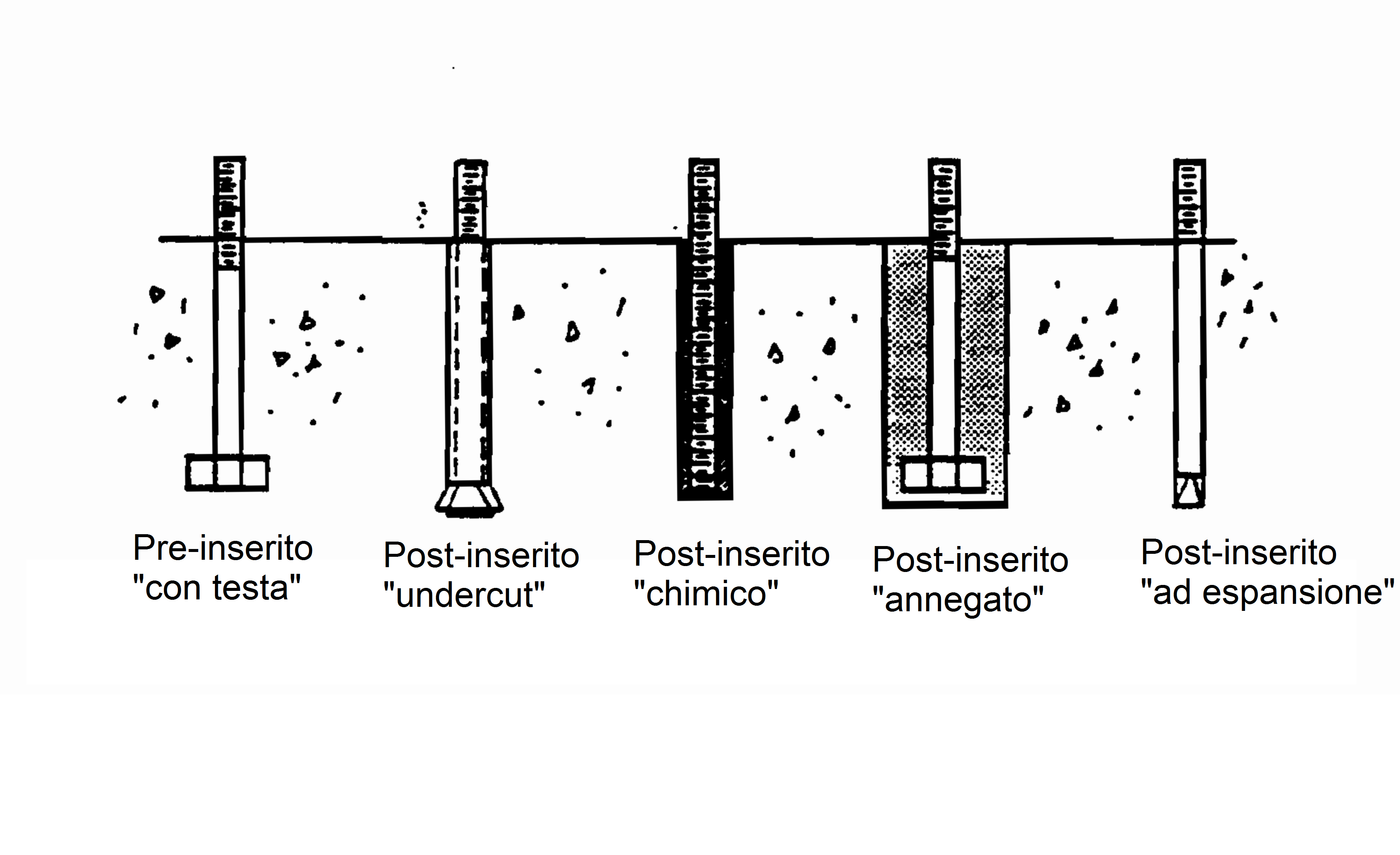 Different types of anchors